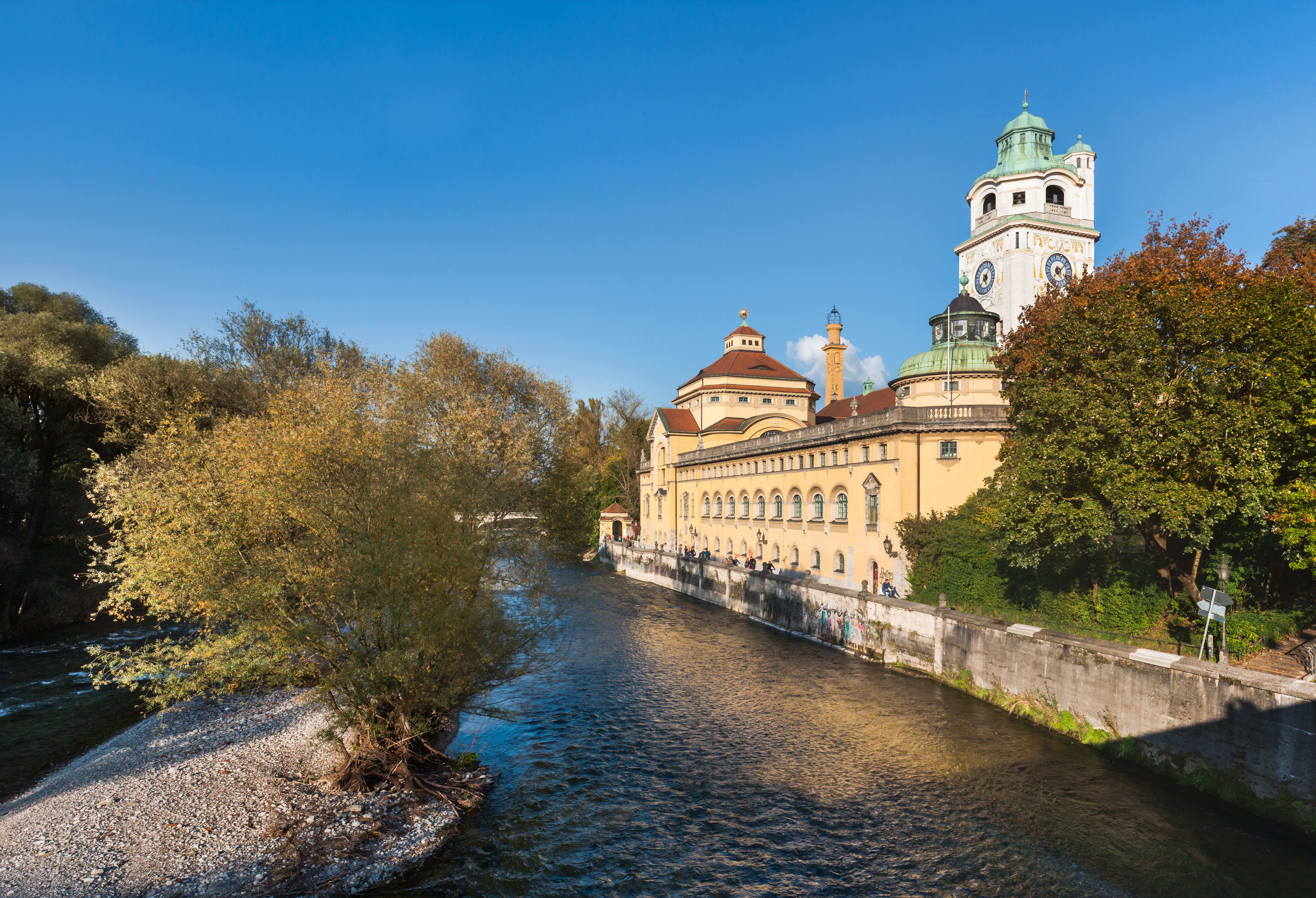 Müllersches Volksbad, Munich, Germany.